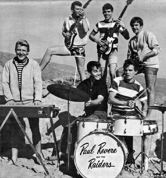 Photo of Dick Clark with Paul Revere and the Raiders from the television program Where the Action Is. Clark was the host and producer of the show-the Raiders were the "house band" and were permanent cast members.